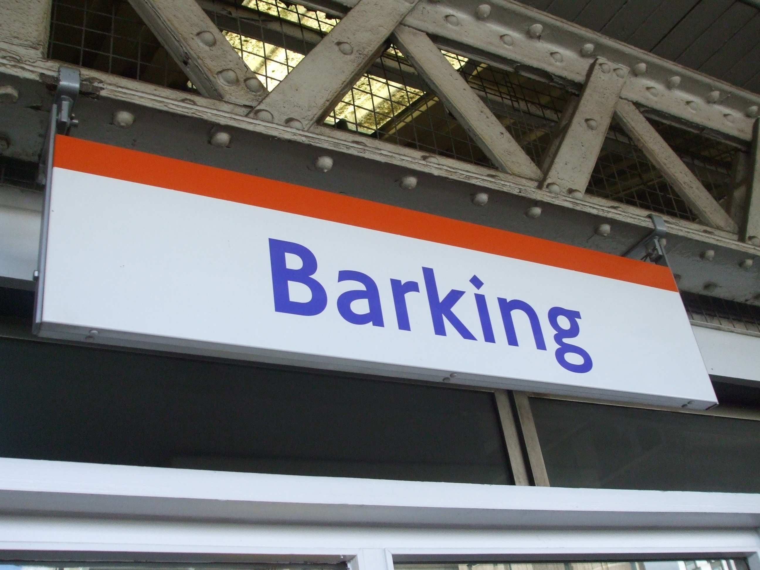 Barking station London Overground signage on platform 1